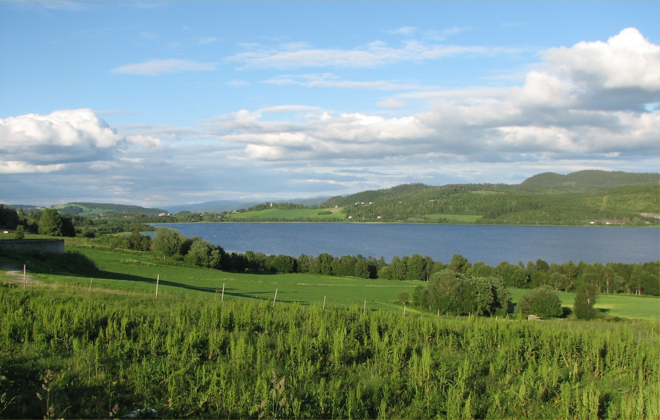 Lømsen sett fra Røsegg.